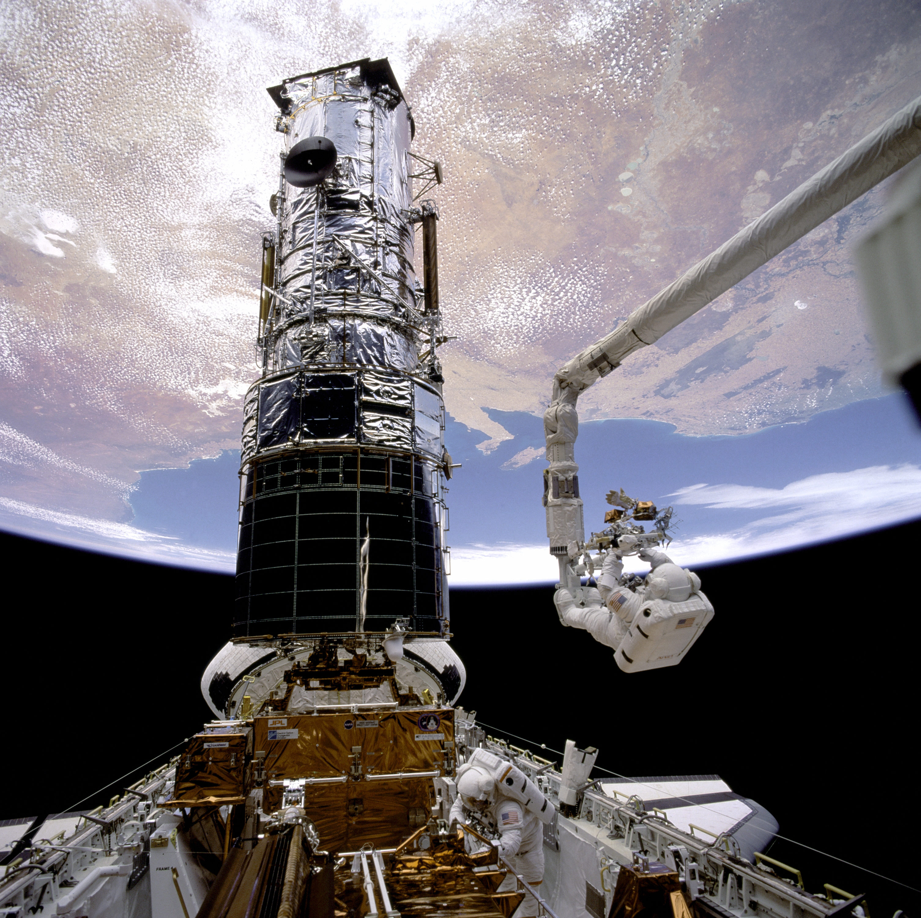 Astronaut F. Story Musgrave, anchored on the end of the Remote Manipulator System (RMS) arm, prepares to be elevated to the top of the Hubble Space Telescope (HST) to install protective covers on the magnetometers. Astronaut Jeffrey A. Hoffman inside payload bay, assisted Musgrave with final servicing tasks on the telescope, wrapping up five days of space walks.